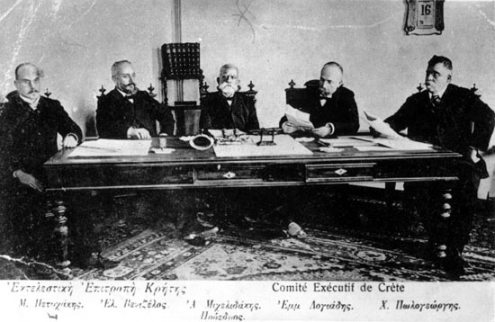 Executive comittee of Crete